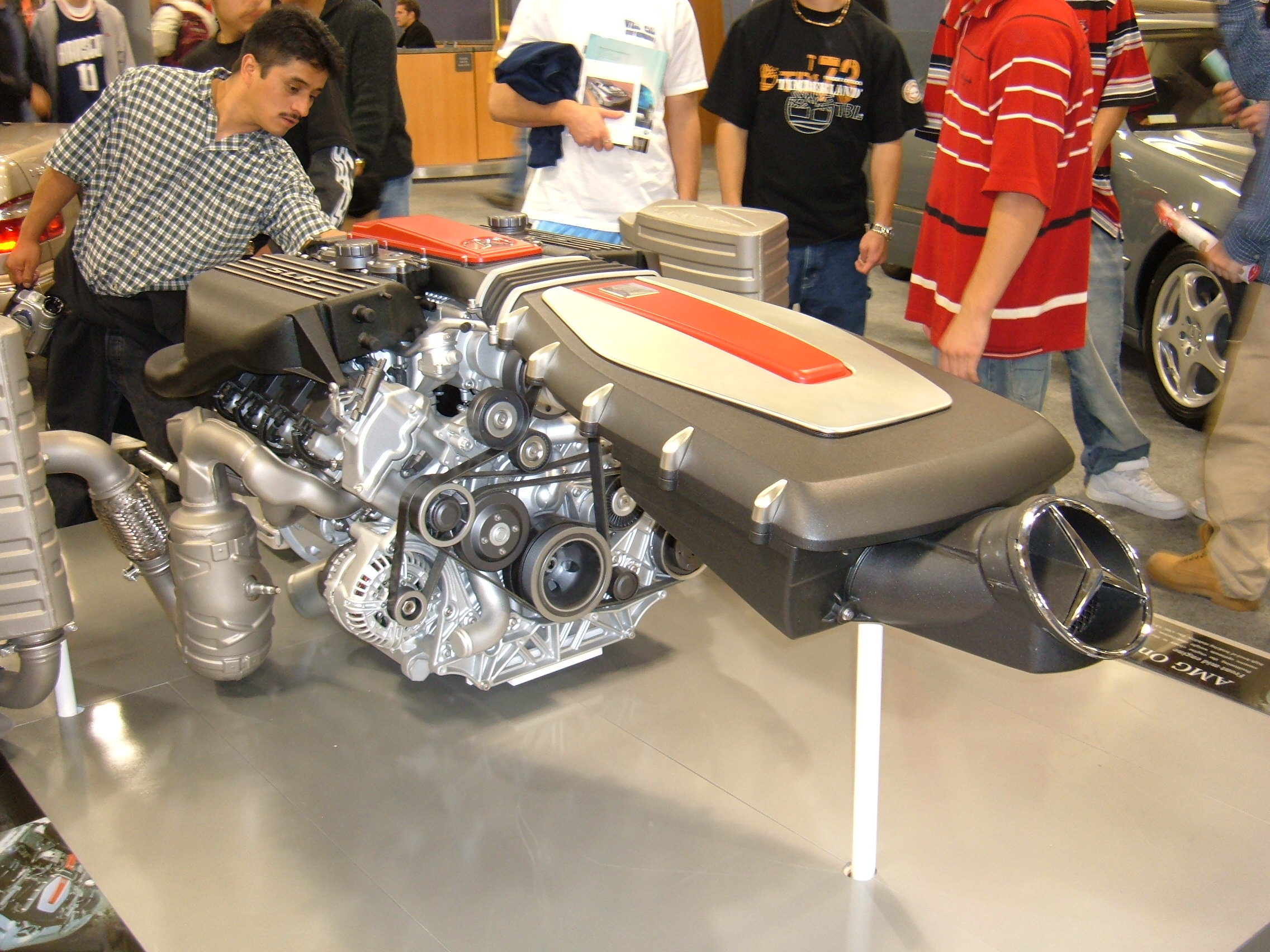 A 2005 Mercedes SLR engine at the 2004 San Francisco International Auto Show.